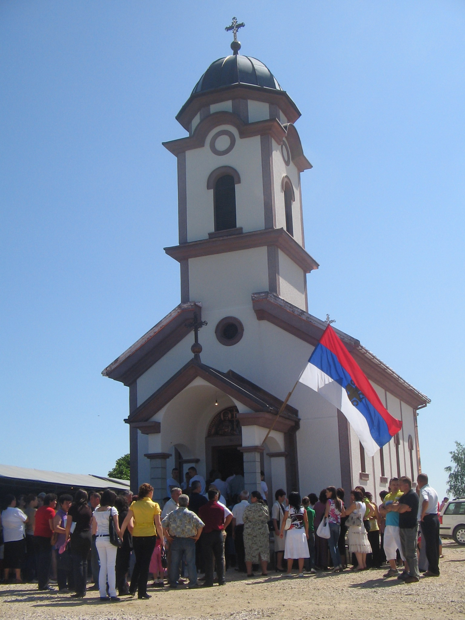 Church in Ladjevci